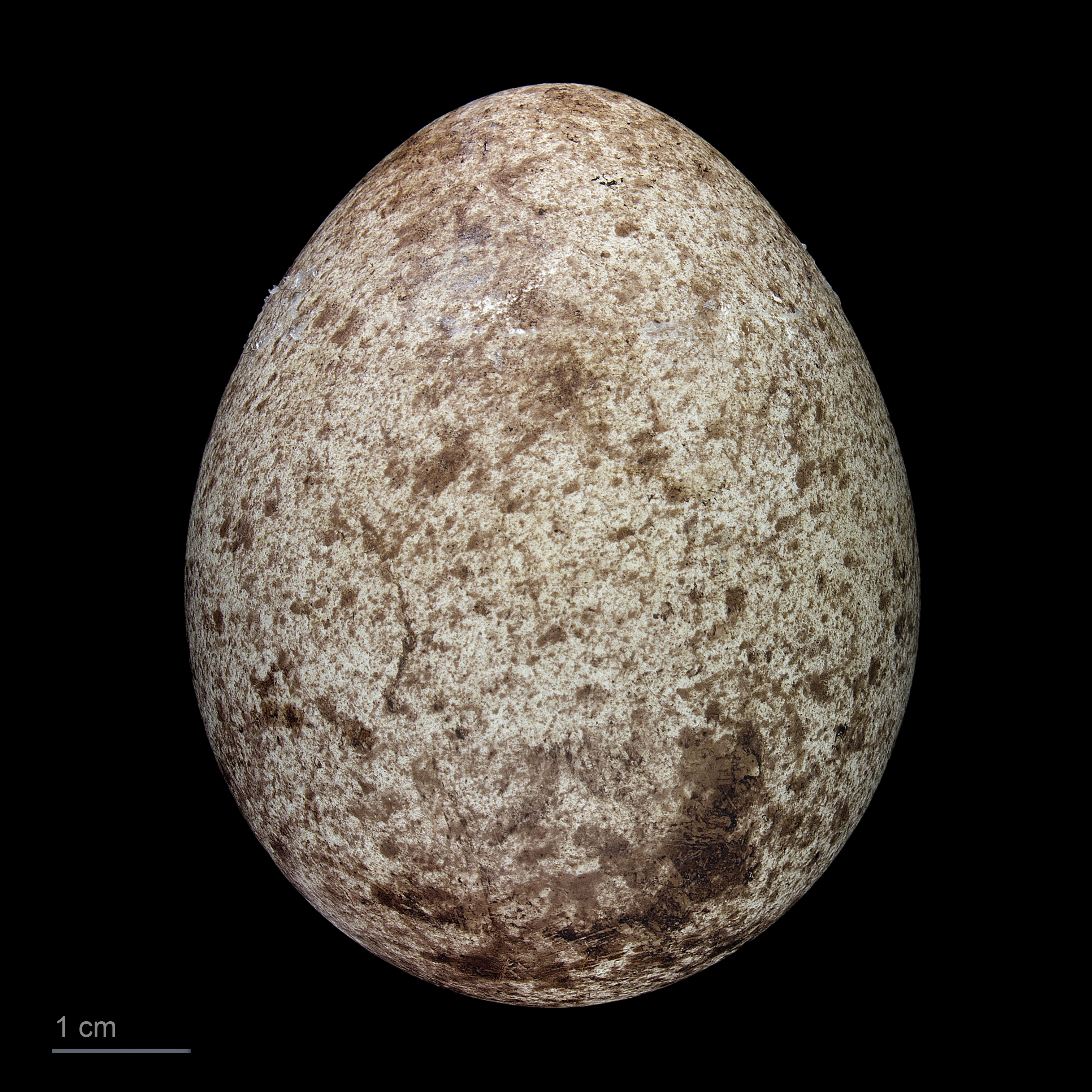 Egg of red-tailed tropicbird Collection of Jacques Perrin de Brichambaut.